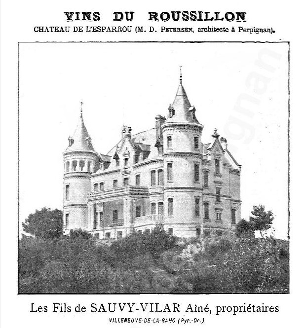 Advertisement for the wines of Château de l'Esparrou in 1898